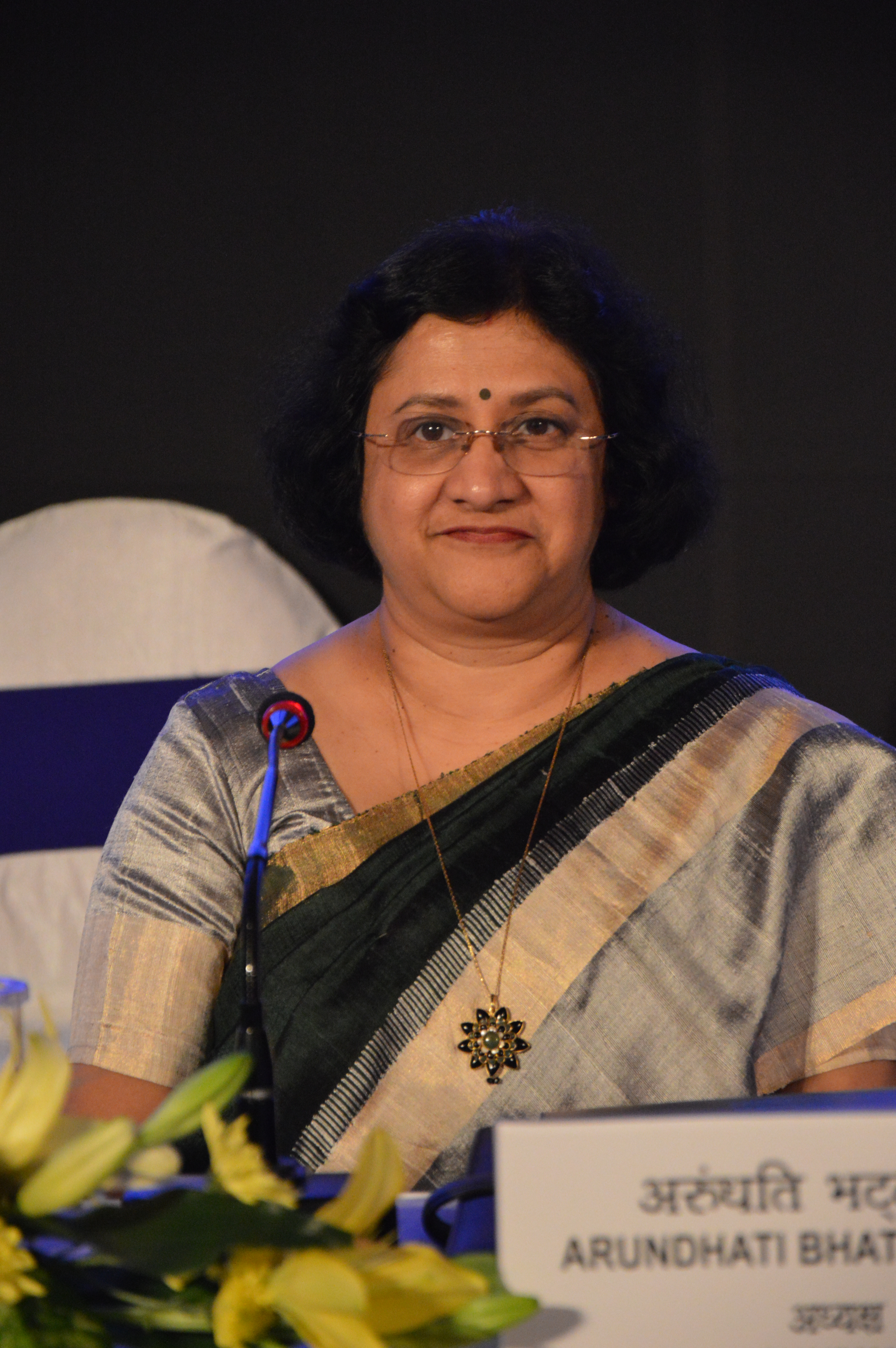 SBI Chairman Arundhati Bhattacharya, during the press conferene of the State Bank of India (SBI) Annual Results Presentation, Kolkata on 22 May 2015.